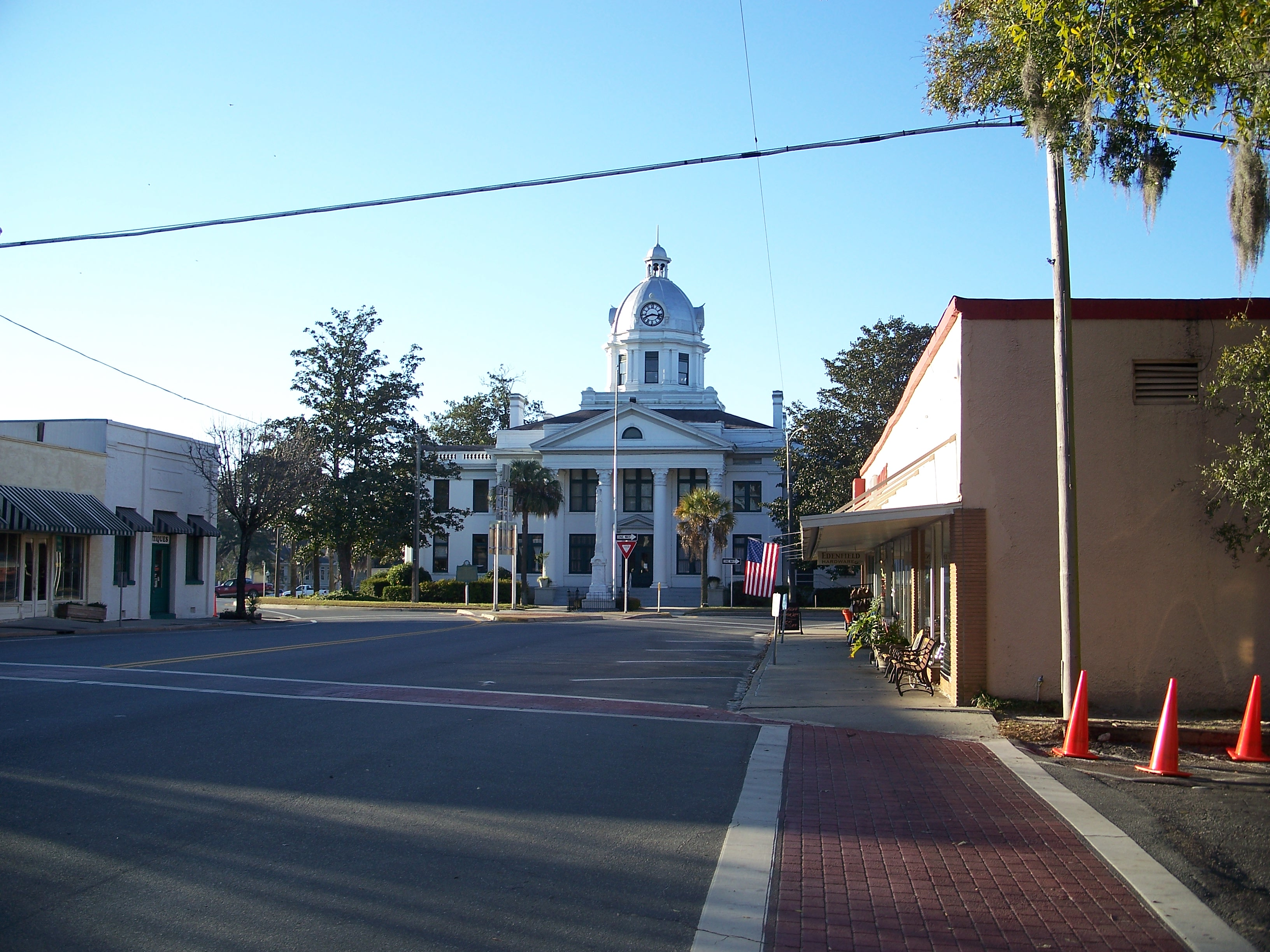 Jefferson County Courthouse, in Monticello, Florida